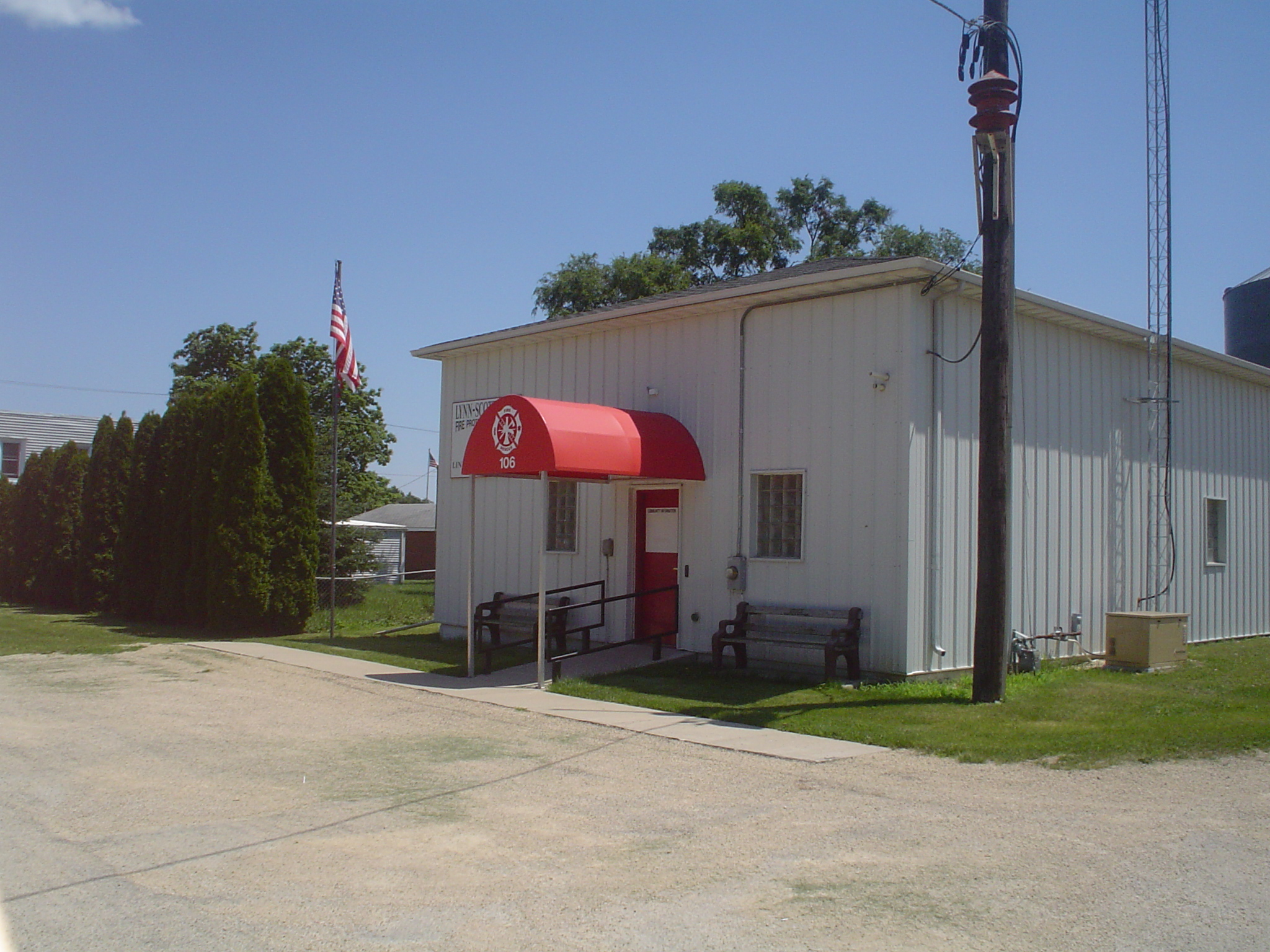 Lindenwood Fire station, part of Lynn-Scott-Rock Fire Protection District.